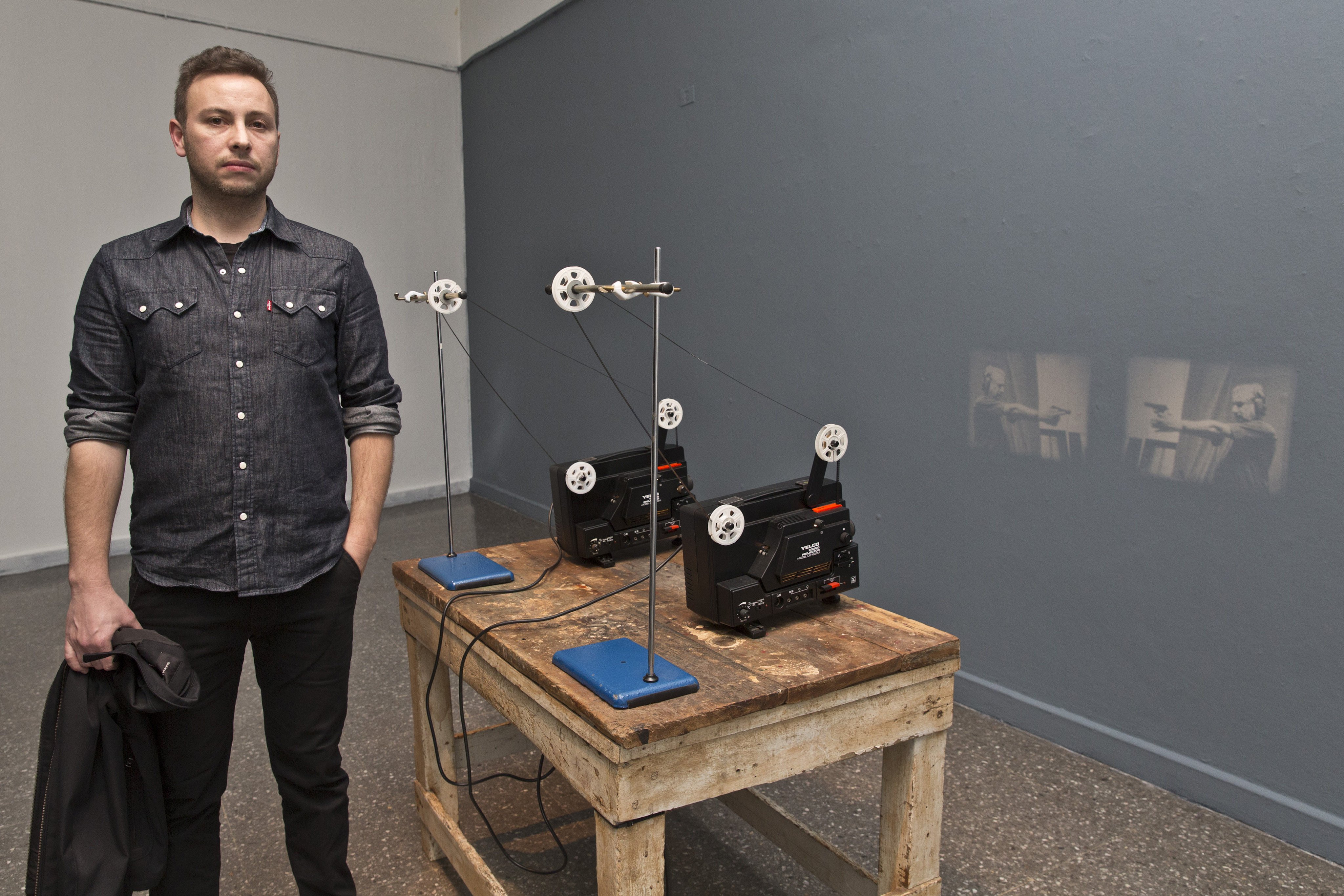 Argentinean artist Andrés Denegri